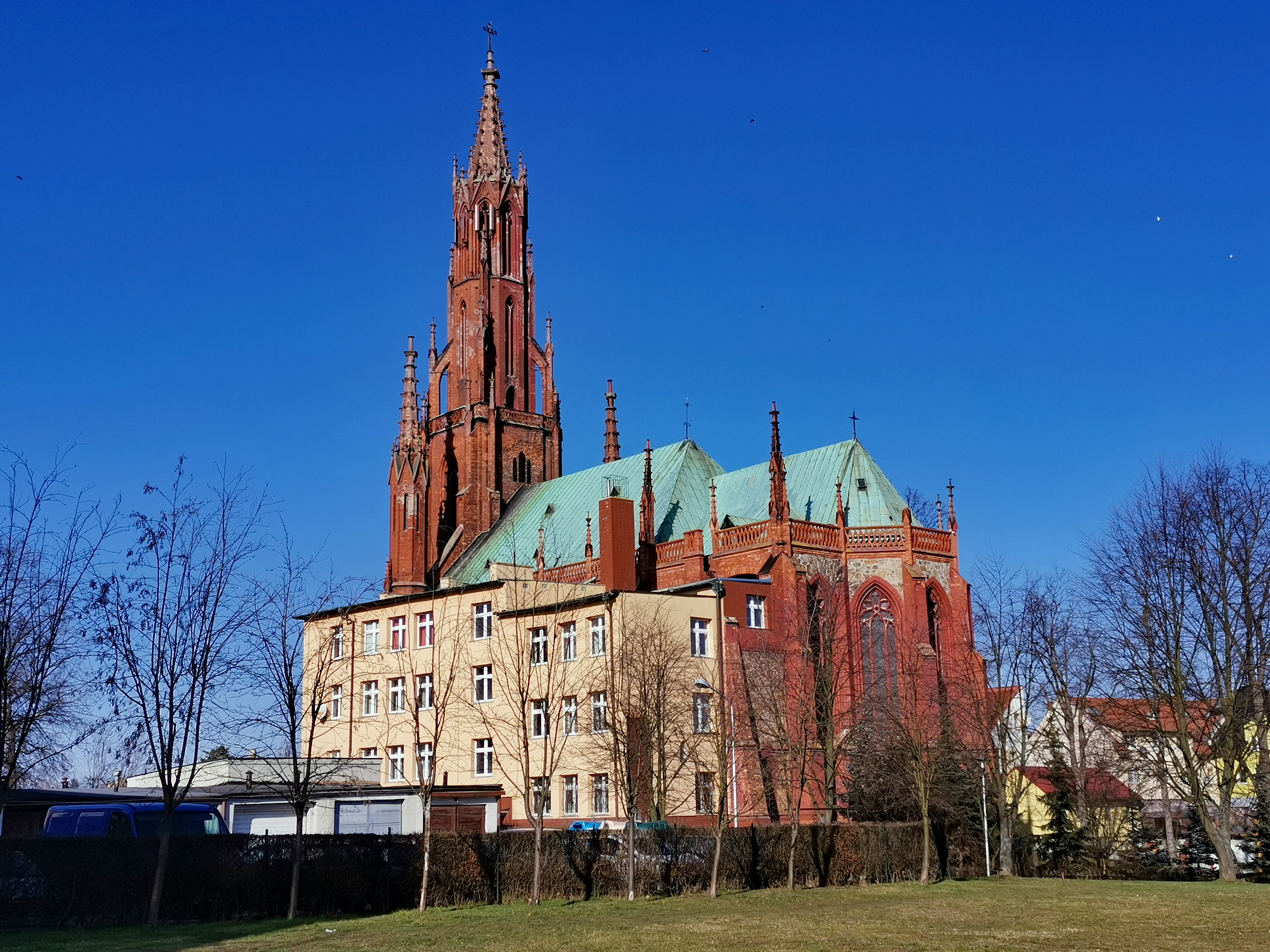 Dreifaltigkeitskirche, Luban, Poland